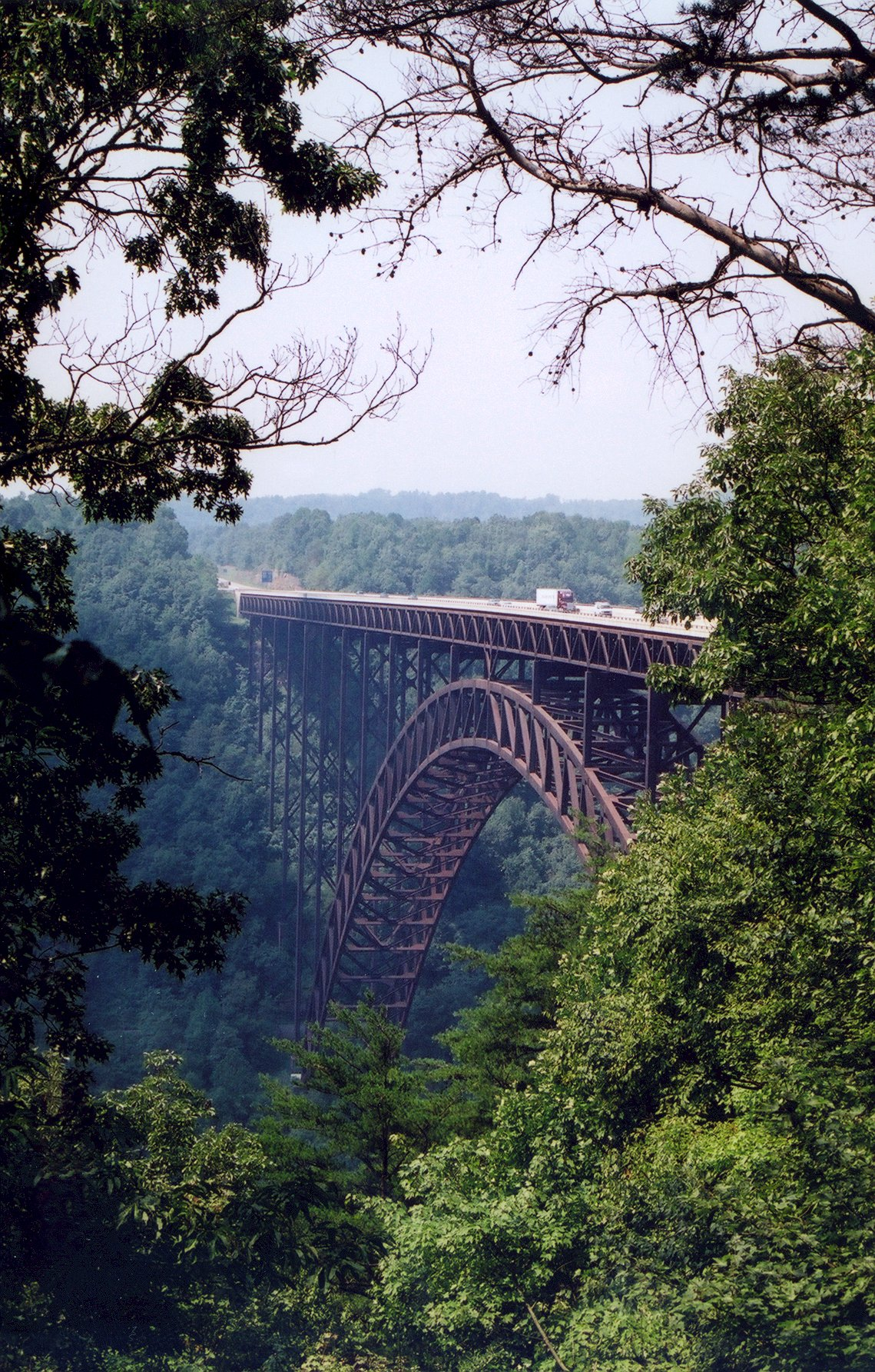 New River Gorge Bridge, West Virginia, USA.